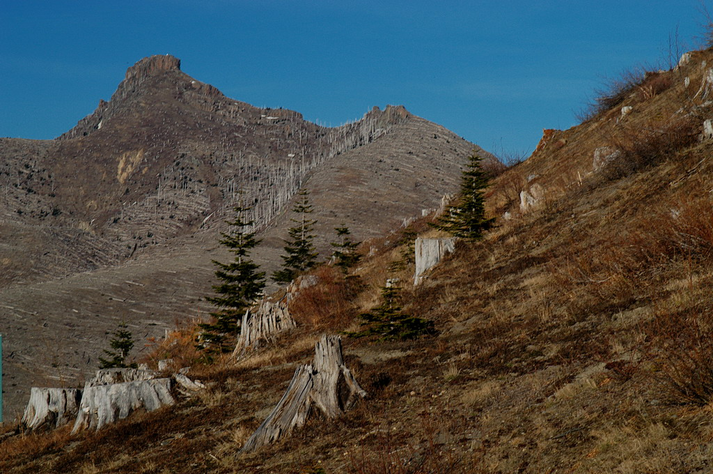 065 Coldwater Peak